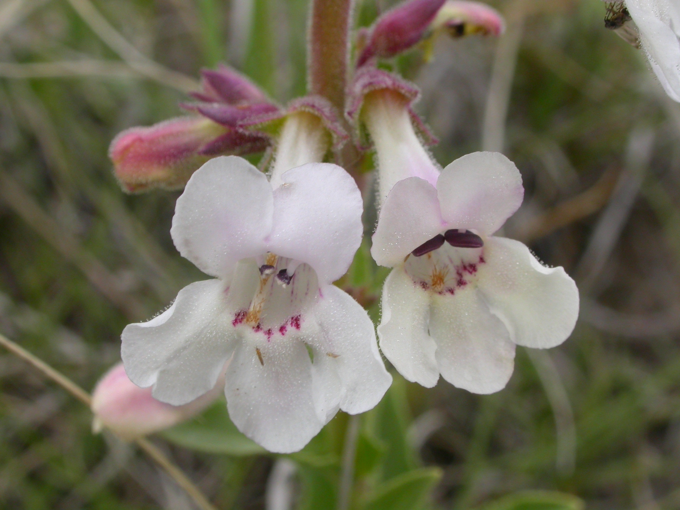 This white flowered penstemon is fairly common in the sagebrush community and the fine hairs on the inflorescence also cover the stems and leaves.